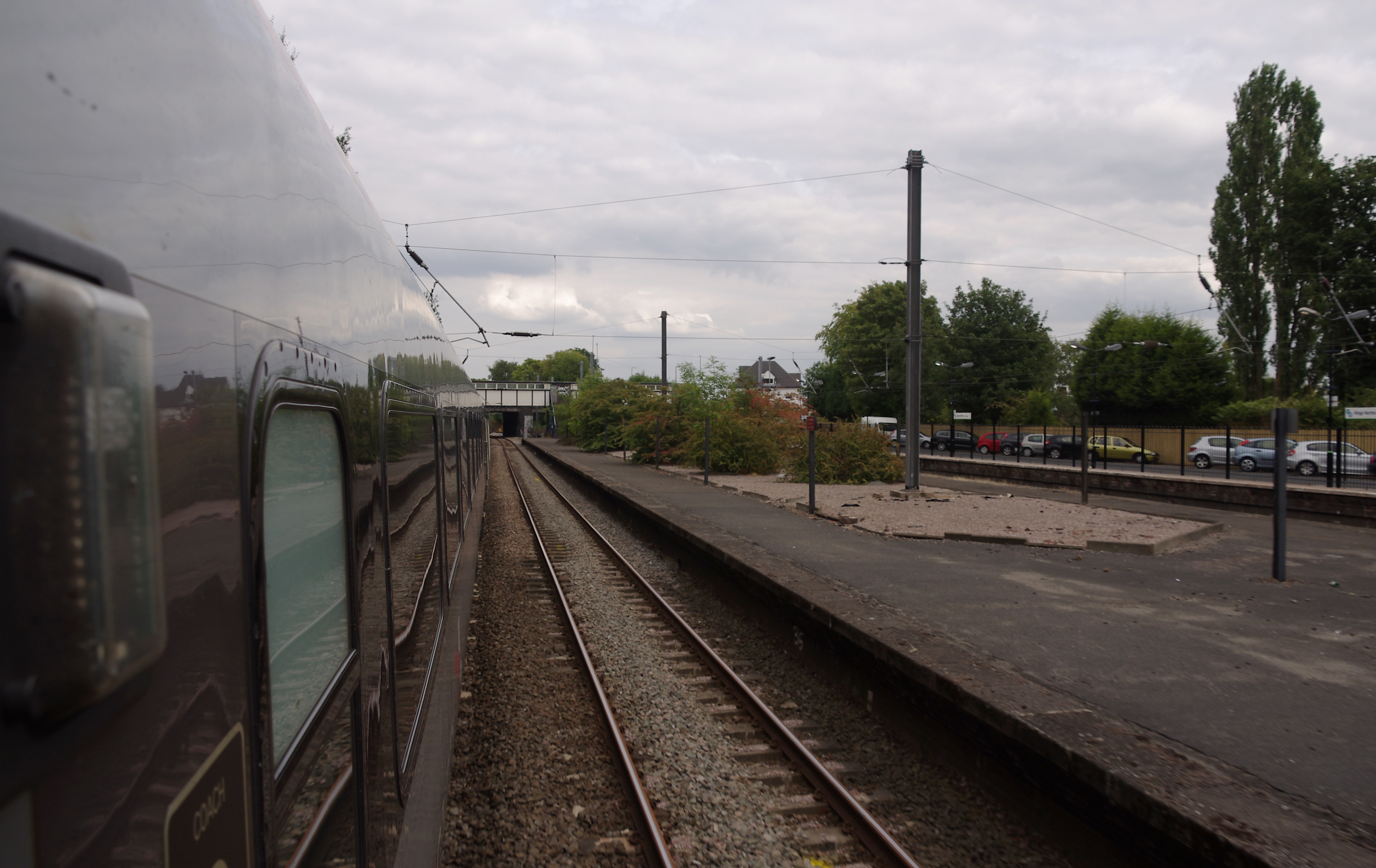 King's Norton railway station, viewed from a northbound CrossCountry HST. The island platform is disused, and in many places overgrown.